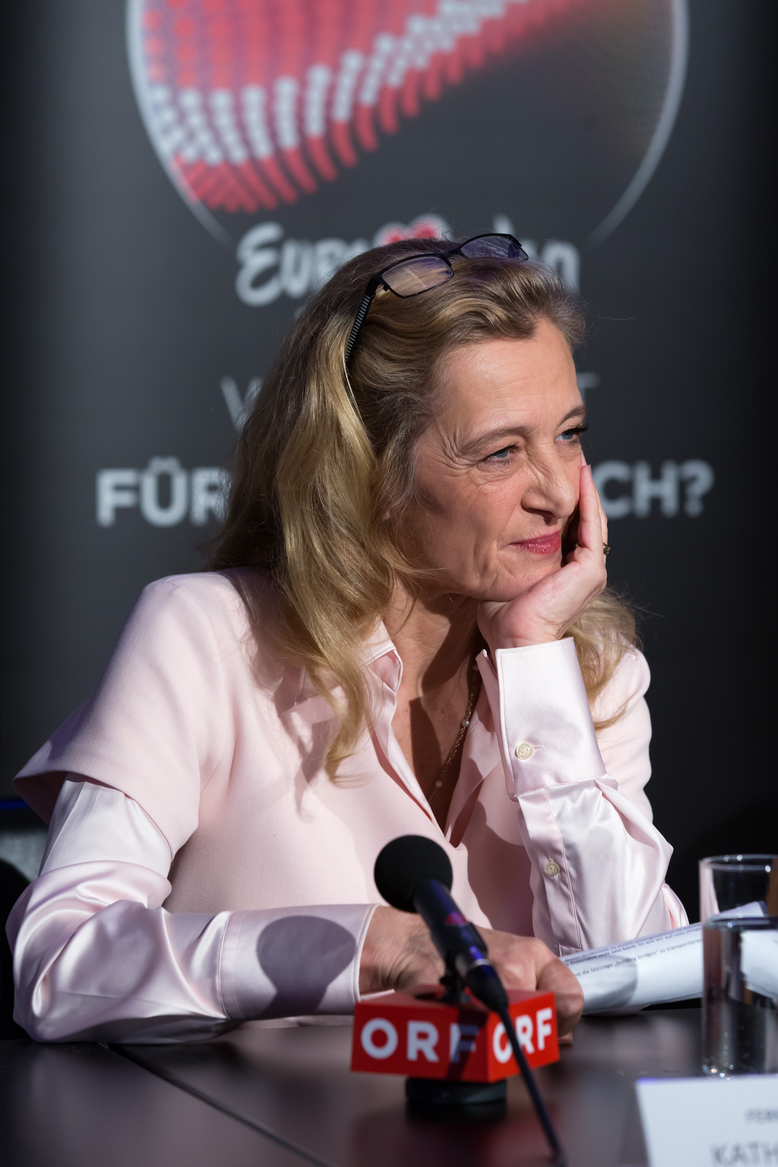 Kathrin Zechner at the press conference after the final show of the selection of the Austrian participant for the Eurovision Song Contest 2015; ORF center, Vienna,Austria.